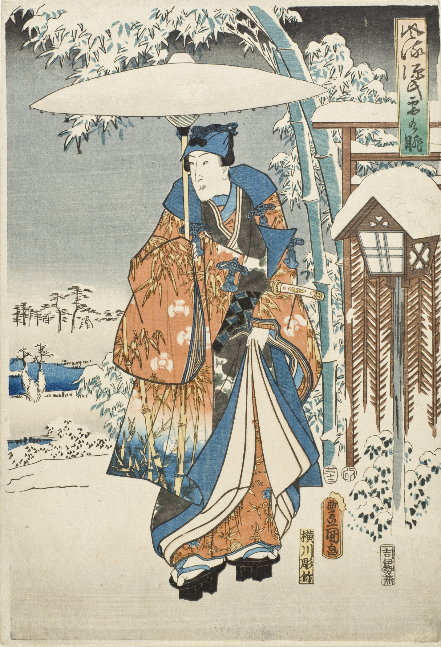 1853 Prints; woodcuts Color woodblock print Image: 14 11/16 x 9 15/16 in. (37.31 x 25.24 cm); Sheet: 14 7/8 x 10 1/8 in. (37.78 x 25.72 cm) Gift of Arthur and Fran Sherwood (M.2007.152.56) Japanese Art